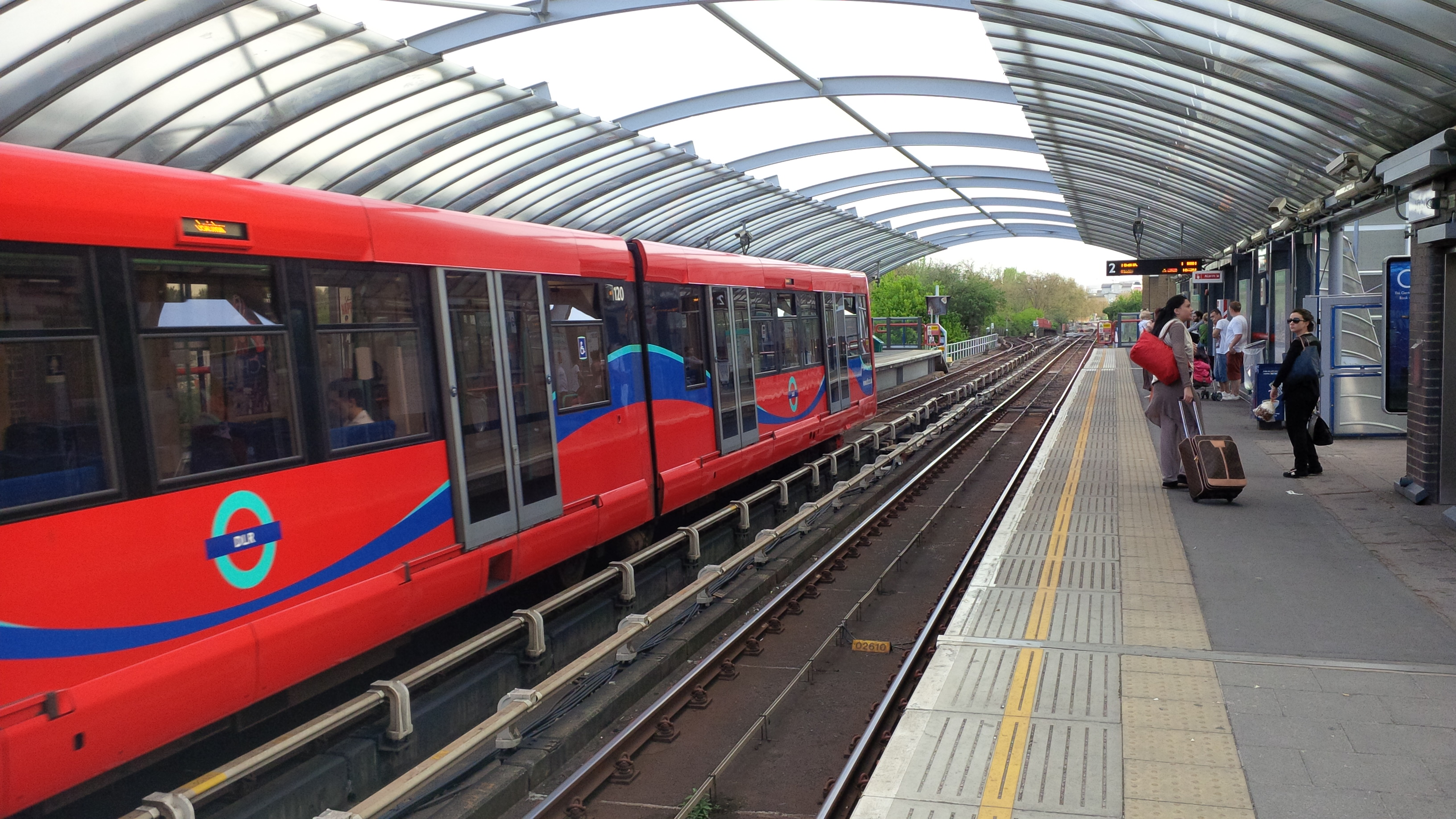 Northbound platform of the Crossharbour station (DLR train on the Southbound platform).